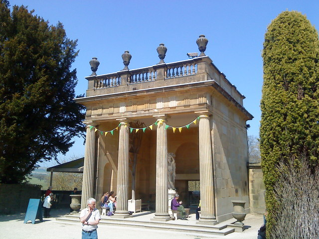 Chatsworth House, Derbyshire